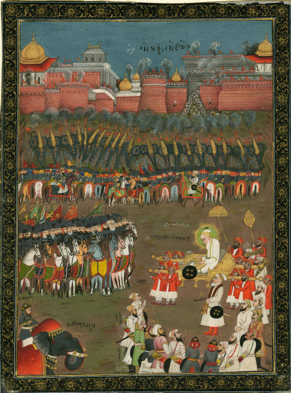 This gouache painting was created by an unknown Indian artist sometime in the mid-to-late 18th century, but it depicts an earlier event: the siege of the city of Golconde in south-central India by the last great Mughal emperor, Aurangzeb (reigned 1658–1707). Golconde was famous for its fort, palaces, factories, and ingenious water-supply system, as well as the legendary wealth from the city’s diamond mine. Aurangzeb was Sunni, while the rulers of the Deccan were Shia who accepted the suzerainity of the shah of Persia and resisted Mughal expansionism. Under the direction of the emperor himself, the city was besieged for eight months. It fell in October 1687 as the result of a bribe. In the foreground of the painting, the aged emperor sits on a litter with attendants, supervising native cavalry and artillery as they attack the walled and fortified city in the background. A breach has been made in the sandstone walls which the Mughal troops are traversing. The painting is from the Anne S.K. Brown Military Collection at the Brown University Library.